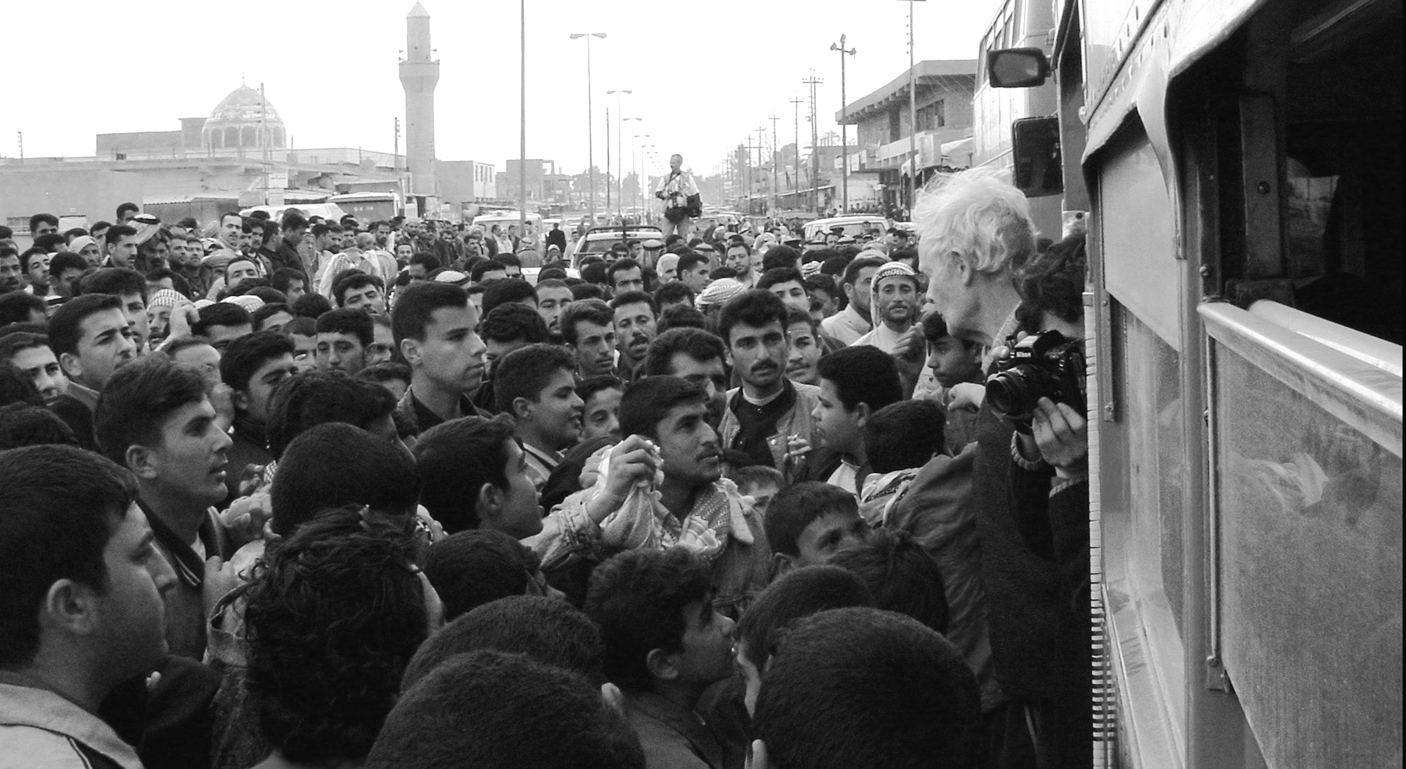 Human shields greeted as they cross the border into Iraq The Human Shield Action to Iraq crossed the border into northern Iraq from Syria on the 15th of February, 2003. This is a picture of the crowd that greeted the double-decker buses as they made their way over the border crossing into the adjacent street. It was quite a crowd considering no one knew, not even the shields themselves until the night before, that this was where they would enter Iraq. The man leaning out the door is 68 year old Godfrey Meynell of Britain, who was fluent in Arabic and explained to the forming crowd why they were there.